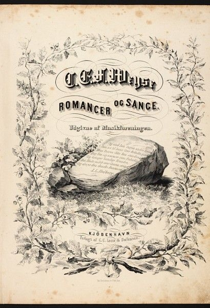 Cover page of Musikforeningen's Romancer og Sange by C.E.F. Weyse published in 1852